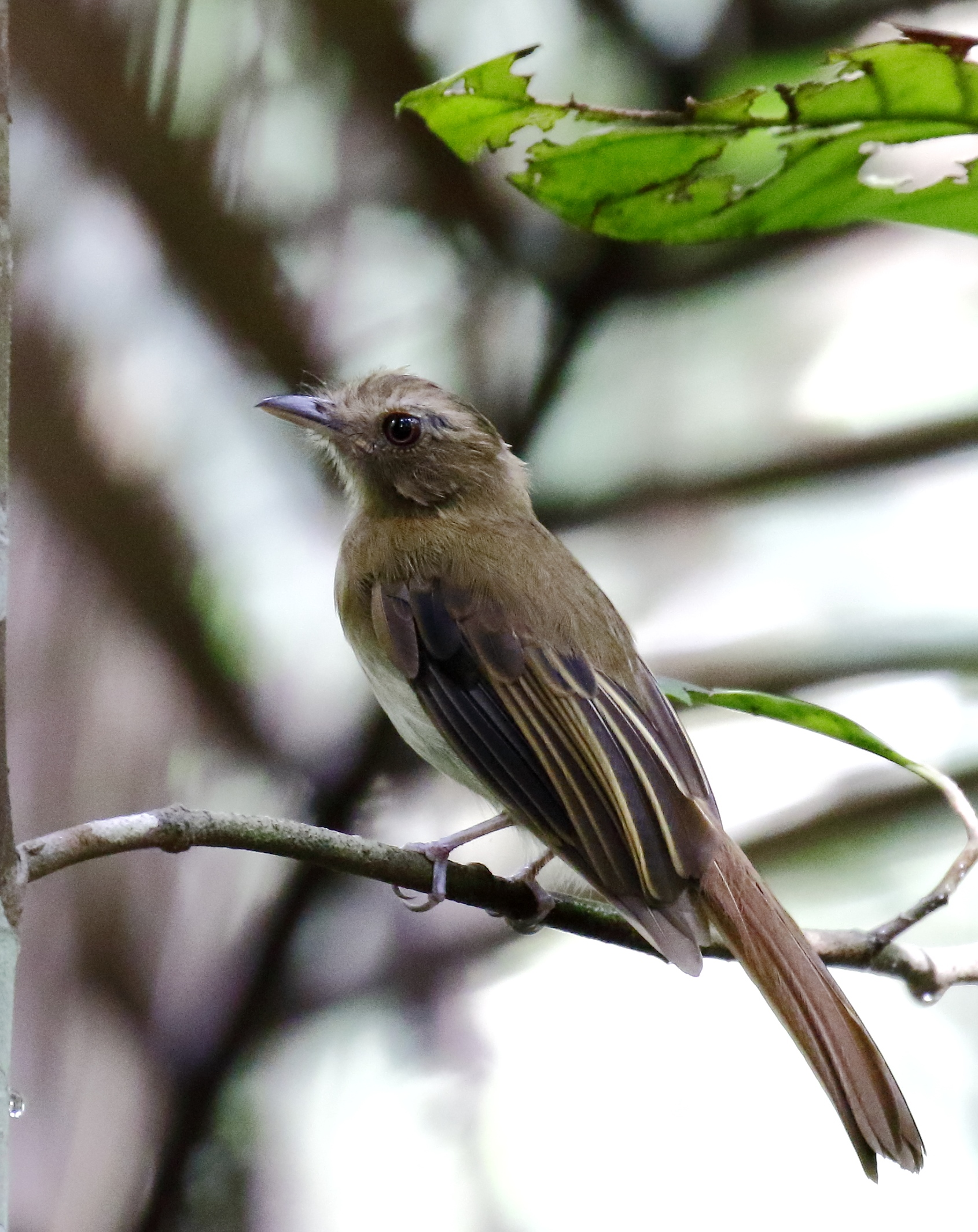 Brownish twistwing, Careiro, Amazonas, Brazil